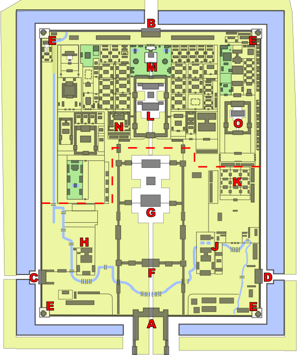 Plan of the Forbidden City. Self created via Inkscape. This labelled version for use in Forbidden City. Unlabelled version is found at Image:Forbidden_city_map_wp_0.png. Sources consulted include: Yu, Zhuoyun (1984) Palaces of the Forbidden City, Category:New York: Viking ISBN 0-670-53721-7 Oddyseey Publication's map of the Forbidden City (see here) Satellite images via Google Earth.